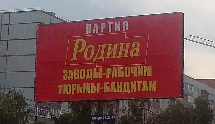 Pre-election banner of the Party RODINA in the single day of voting on 8 September 2013 in the city of Tolyatti, Samara region, Russia. inscription: the PARTY RODINA - the FACTORIES to the WORKERS - PRISON BANDITS